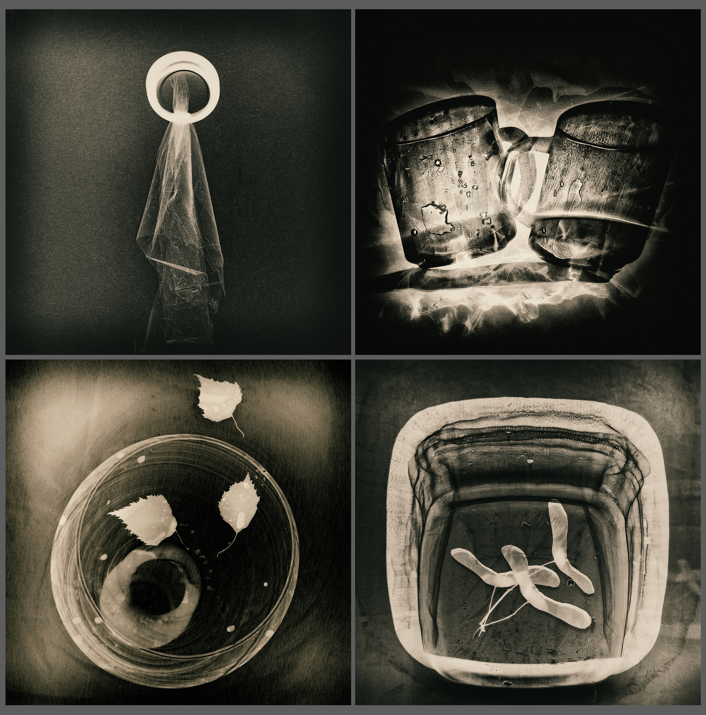 Digital photograms (simulated analog method)